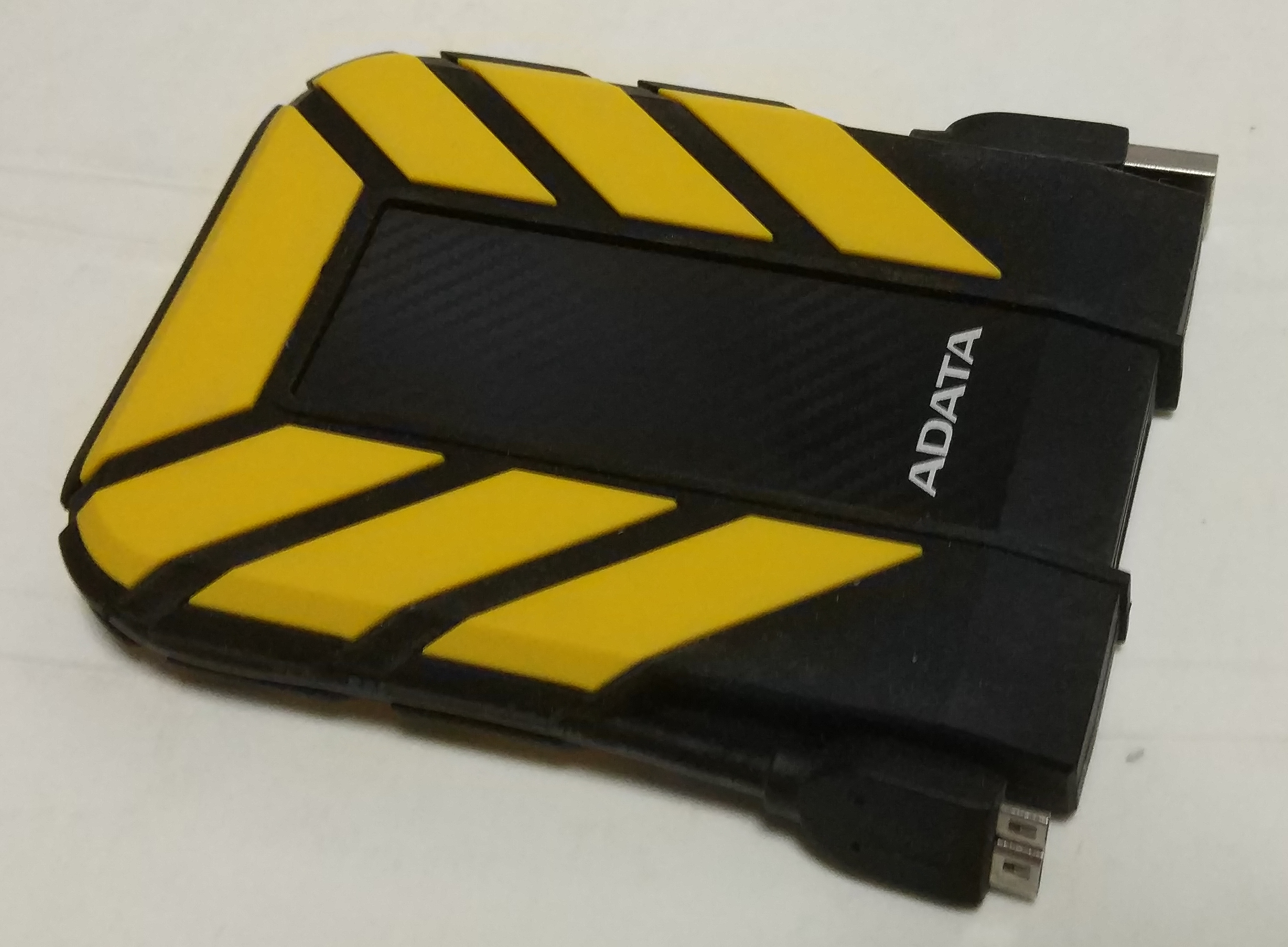 MIL-STD-810 516.6 and IP68 USB 3.1 Portable storage device, ADATA HD710 Pro 2TB.